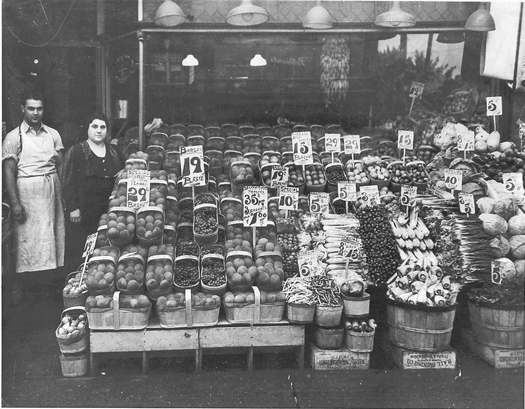 Fruit stand, southwest corner of Danforth Avenue and Logan Avenue, Toronto, Canada. Tony Greco and mother. See Image:DanforthLoganWest1932.jpg for 1932 view of this intersection. As of 2007, a fruit stand still operates at this location (see Image:Small Market.jpg).